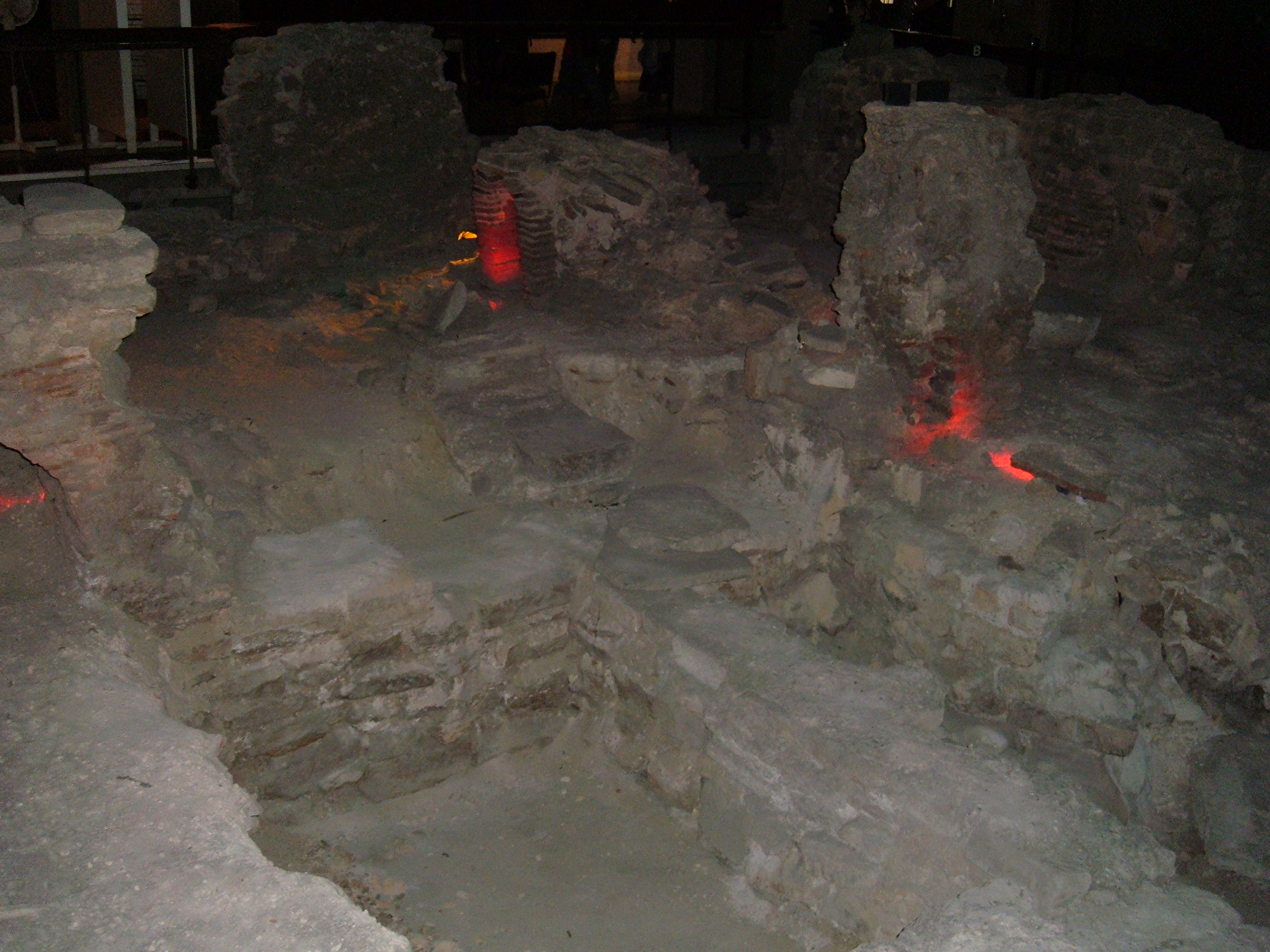 A section of the archaeological crypt of Notre Dame de Paris in Paris, France.